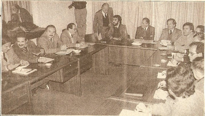 Reunion de los dieciséis dirigentes de partidos politicos que conformaron la concertación de partidos por la democracia.